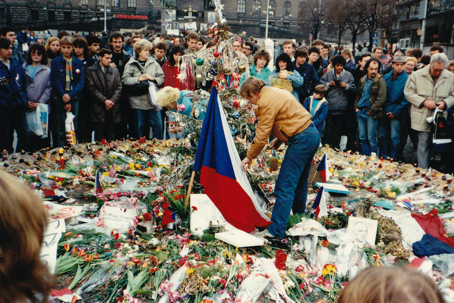 Vaclav Havel and protesters commemorate the struggle for Freedom and Democracy at Prague memorial during 1989 Velvet Revolution.